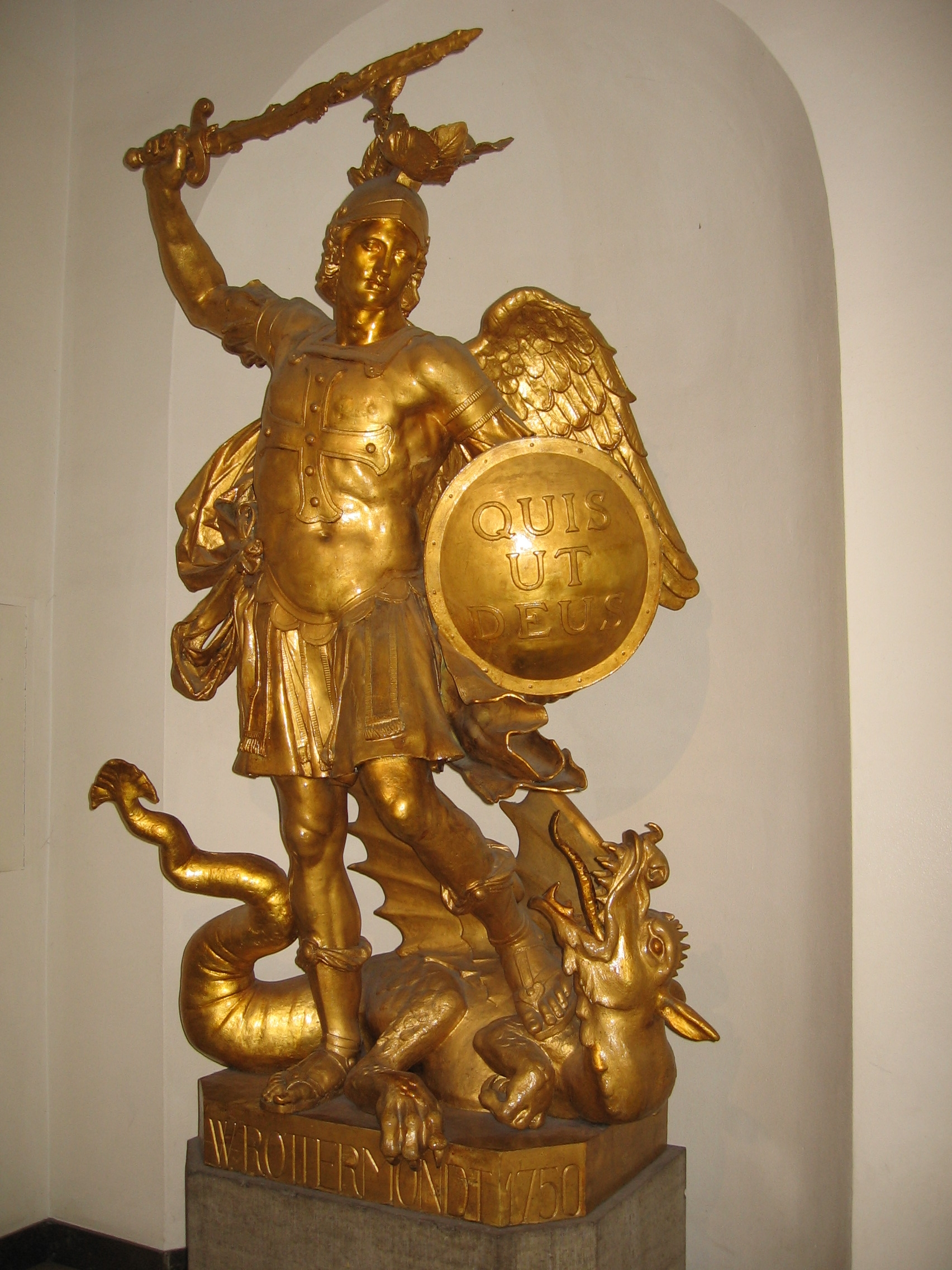 statue of Archangel Michael, University of Bonn